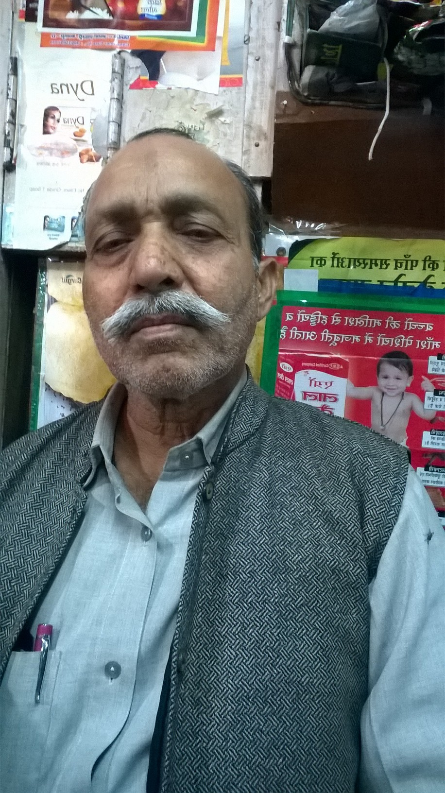 Mohammad Hasnain is a famous Story writer and translator of Urdu to Engish /English to Urdu of our City Bahraich